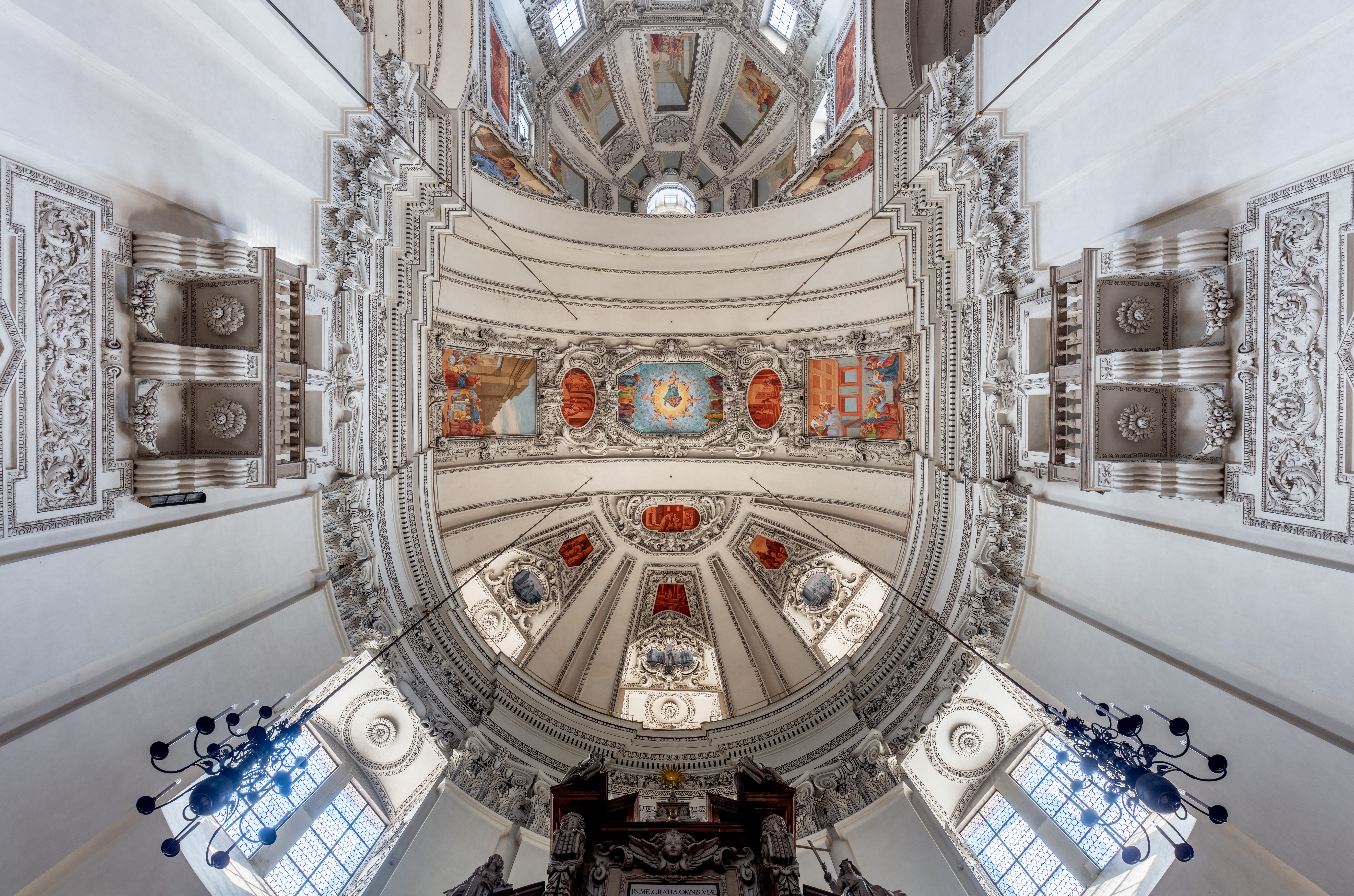 Salzburg Cathedral, Austria